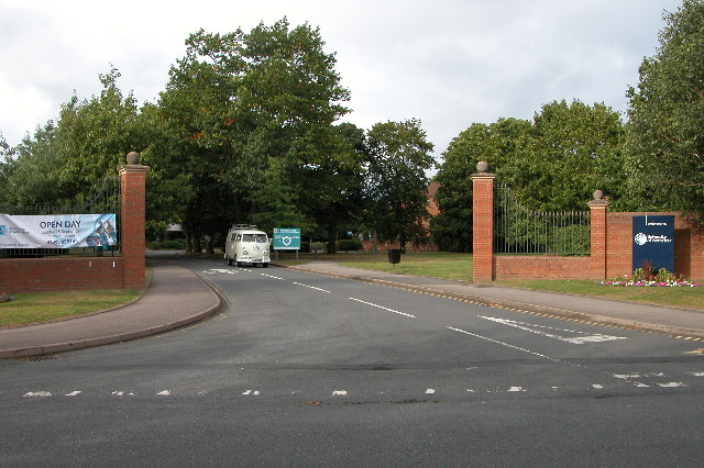 University of Worcester. The entrance to the University of Worcester. Formerly it was Worcester College of Higher Education, in the late 1990s it became University College Worcester, and in September 2005 it became the University of Worcester